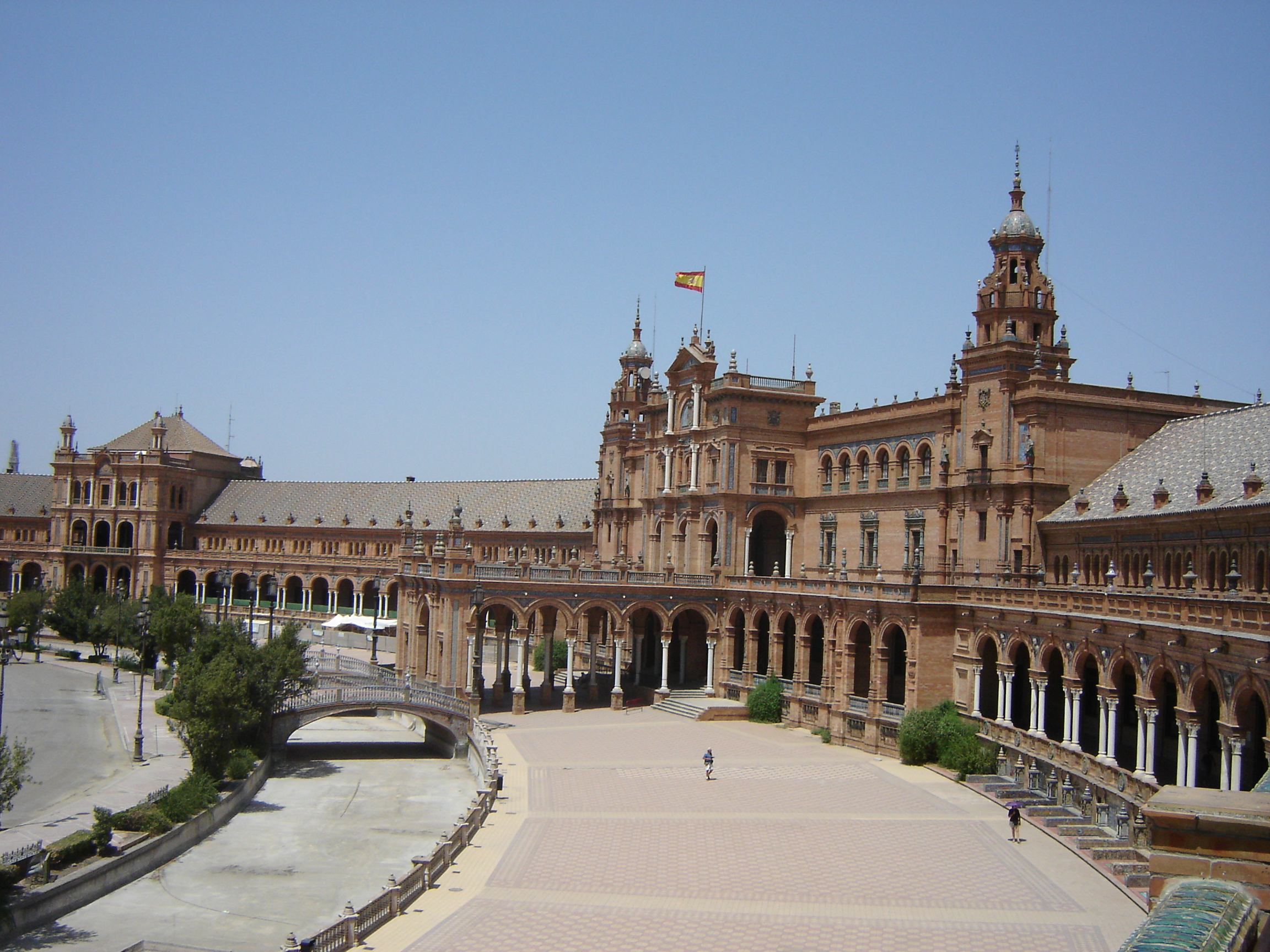 Photographer: Patrick Morin Place: Sevilla (Spain) Description: Plaza de España Date: August 4th 2005